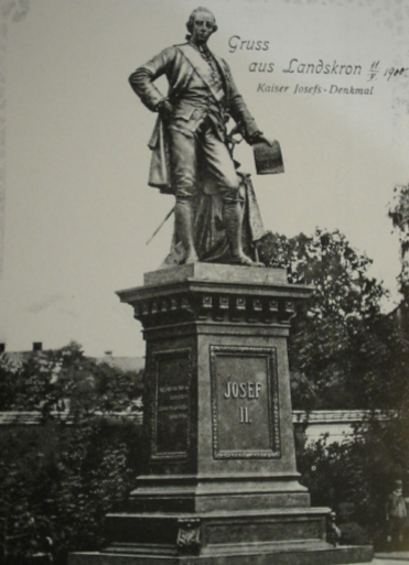 Joseph II, Holy Roman Emperor: His monument built in 1882 in Lanskroun, Czech Republic, by local Geman inhibitants. Removed by Czech authorities in 1924. Photography on old picture postcard.